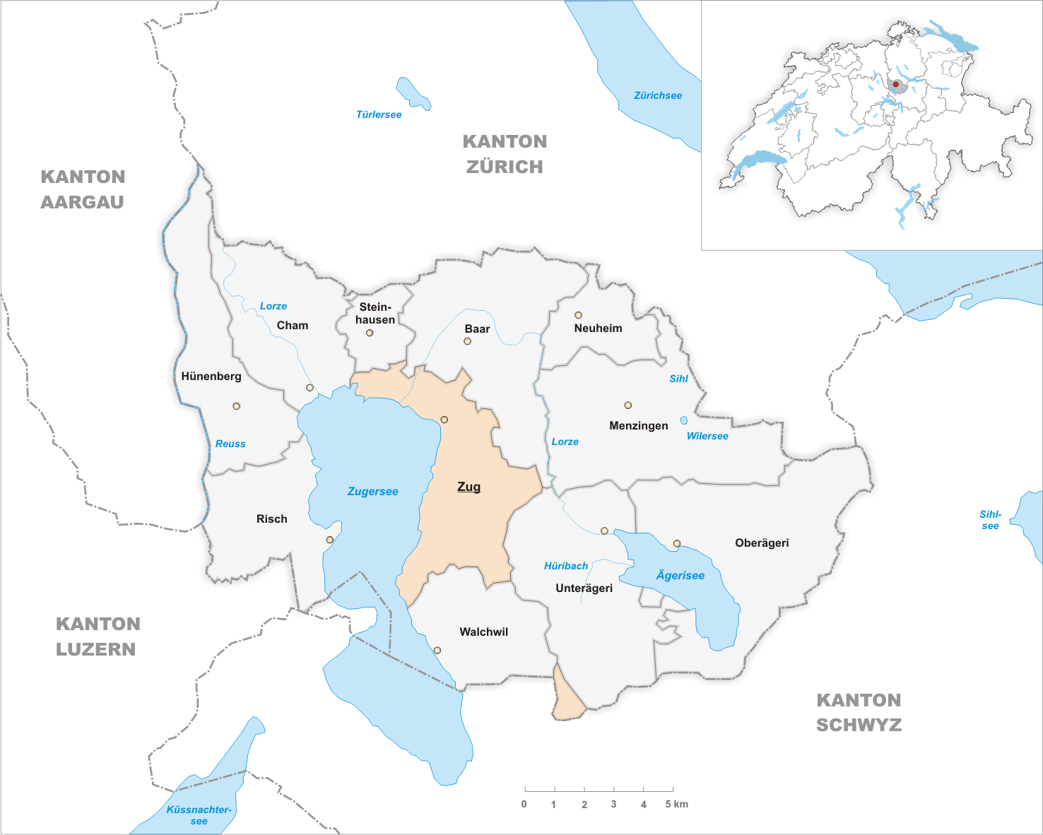 Municipality of Zug